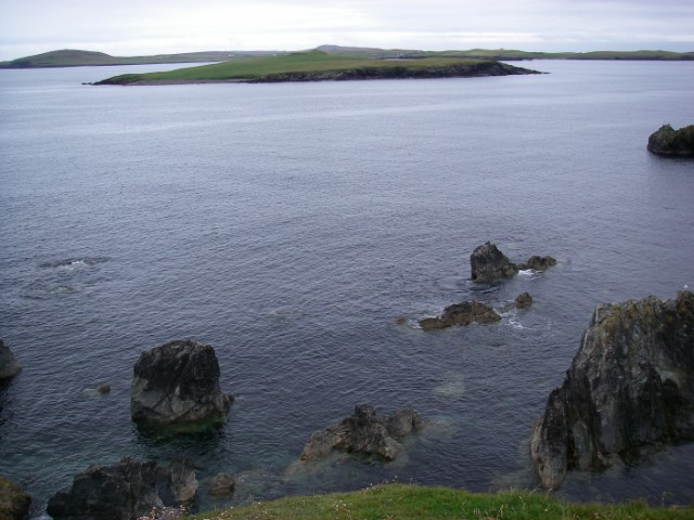 View from Neap of Norby over Holm of Melby Papa Stour occupies the distant view.